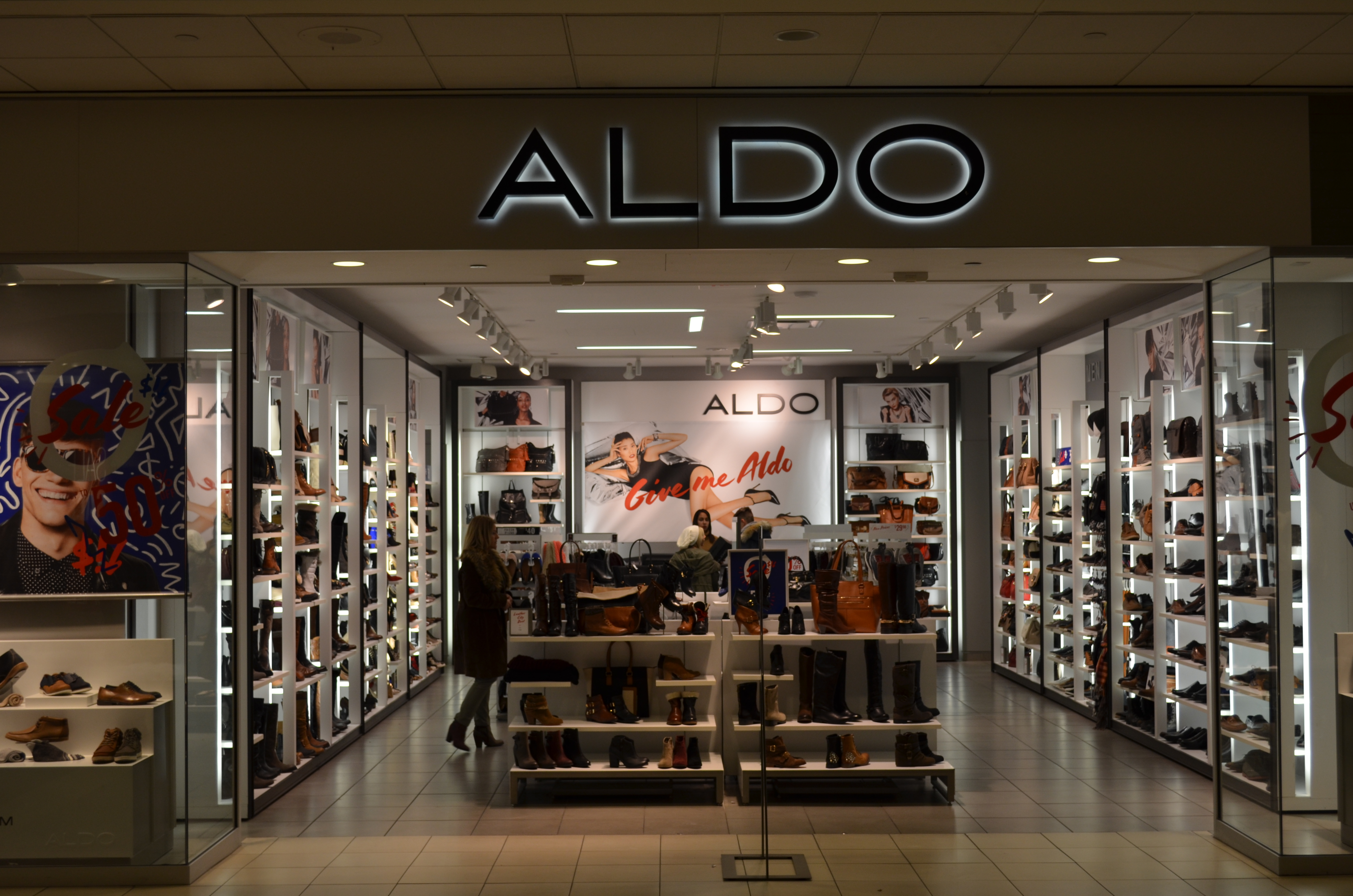 ALDO at Promenade